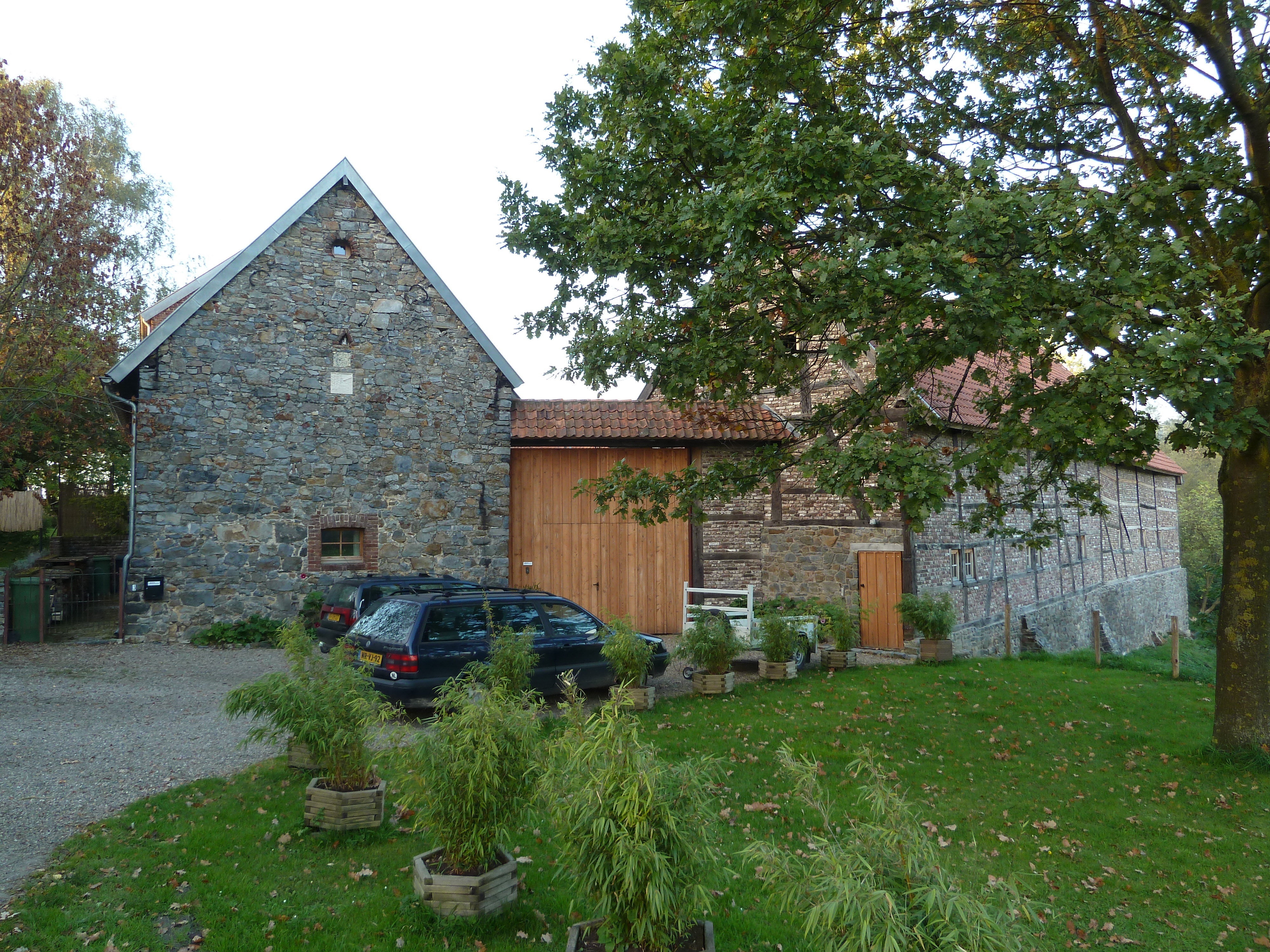 Hoeve Vernelsberg, Plaatweg 3, Epen, Limburg, the Netherlands